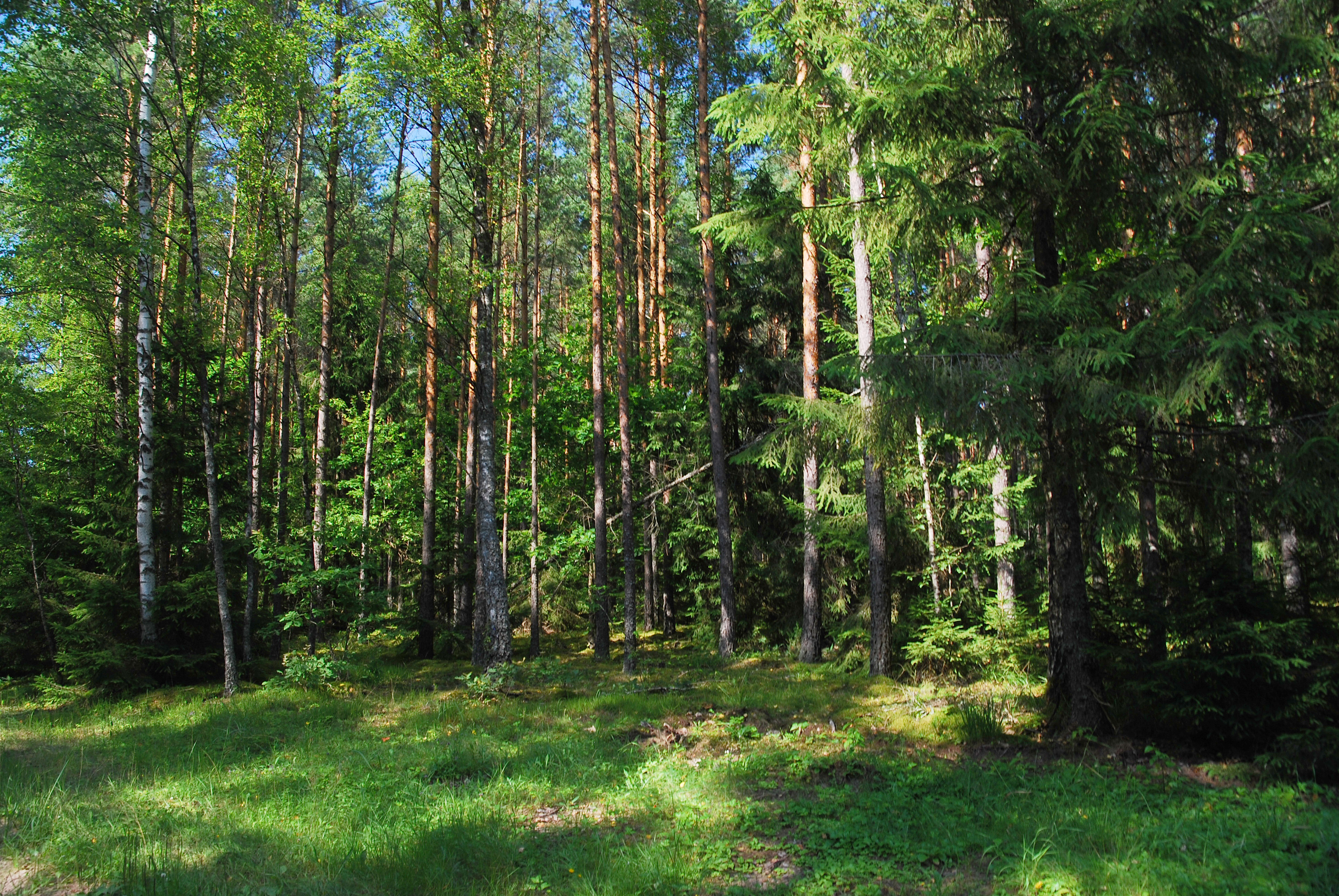 This photo from Podlaskie Voievodeship was taken during Polish Wikiexpedition 2009 set up by Wikimedia Polska Association. The making of this document was supported by Wikimedia Polska. Puszcza Augustowska landscape